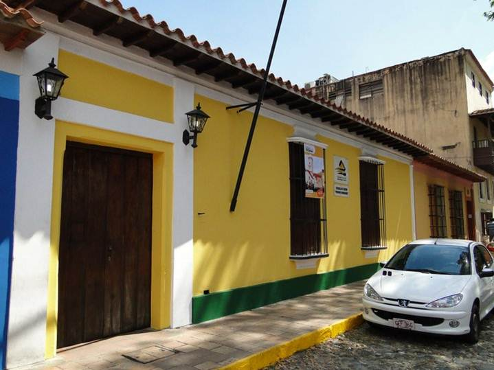 José Ángel Lamas Foundation